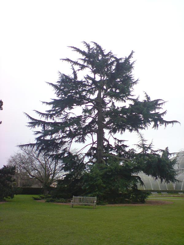 Lebanon cedar (Cedrus libani) in Kew Gardens, England.